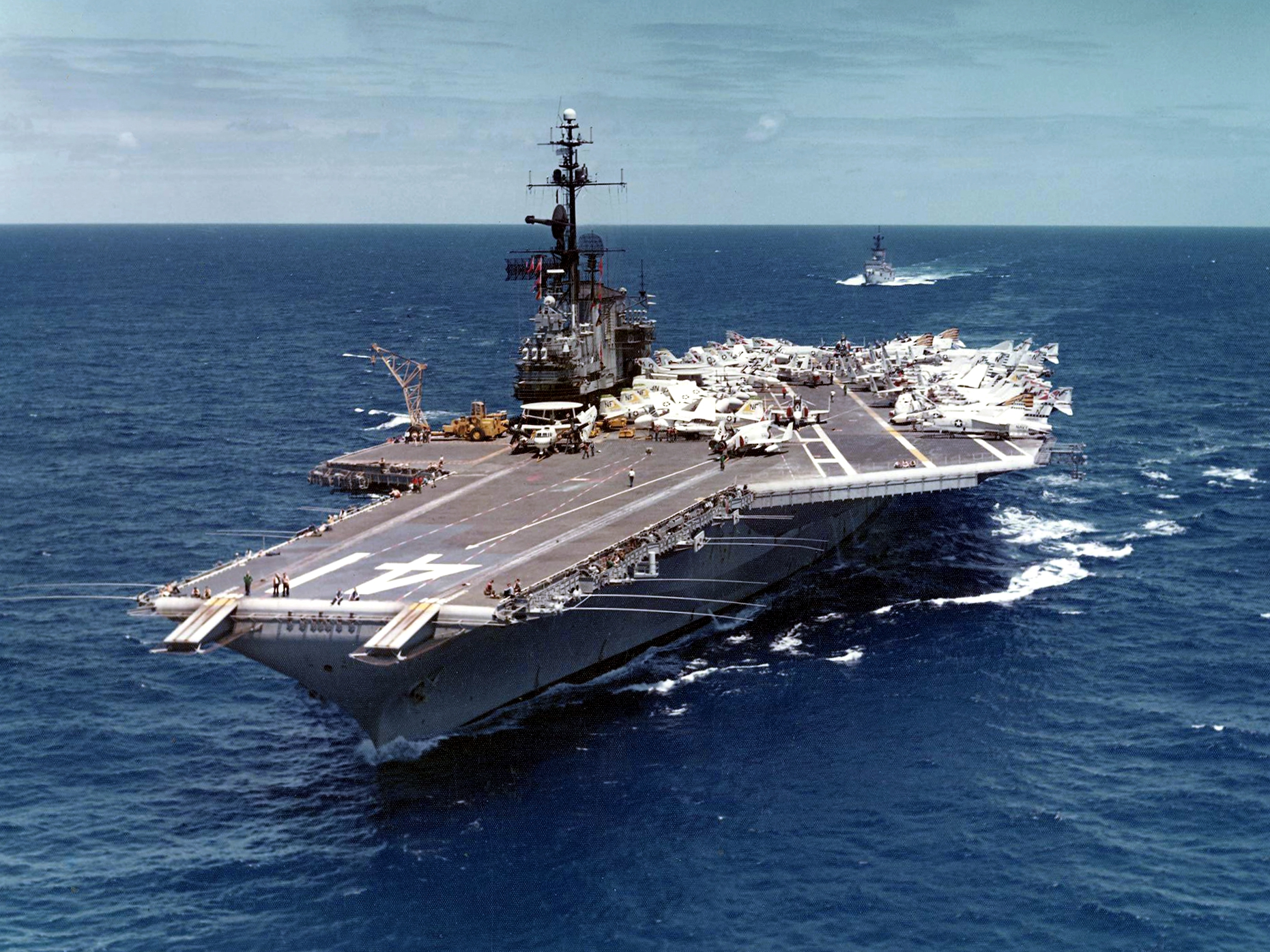 The U.S. Navy aircraft carrier USS Midway (CVA-41) underway in the Pacific Ocean, 19 April 1971. Midway, with assigned Carrier Air Wing 5 (CVW-5), was deployed to Vietnam from 16 April to 6 November 1971. A Knox-class frigate is visible in the background.